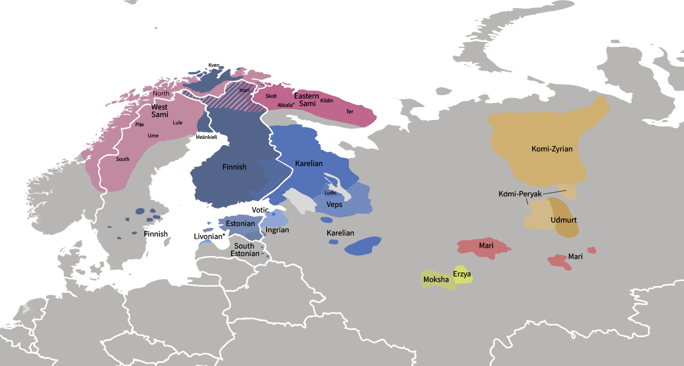 A map of thenapproximate distribution of the Finno-Permic Language Family, with different colour gradients corresponding to different subdivisions of the family.